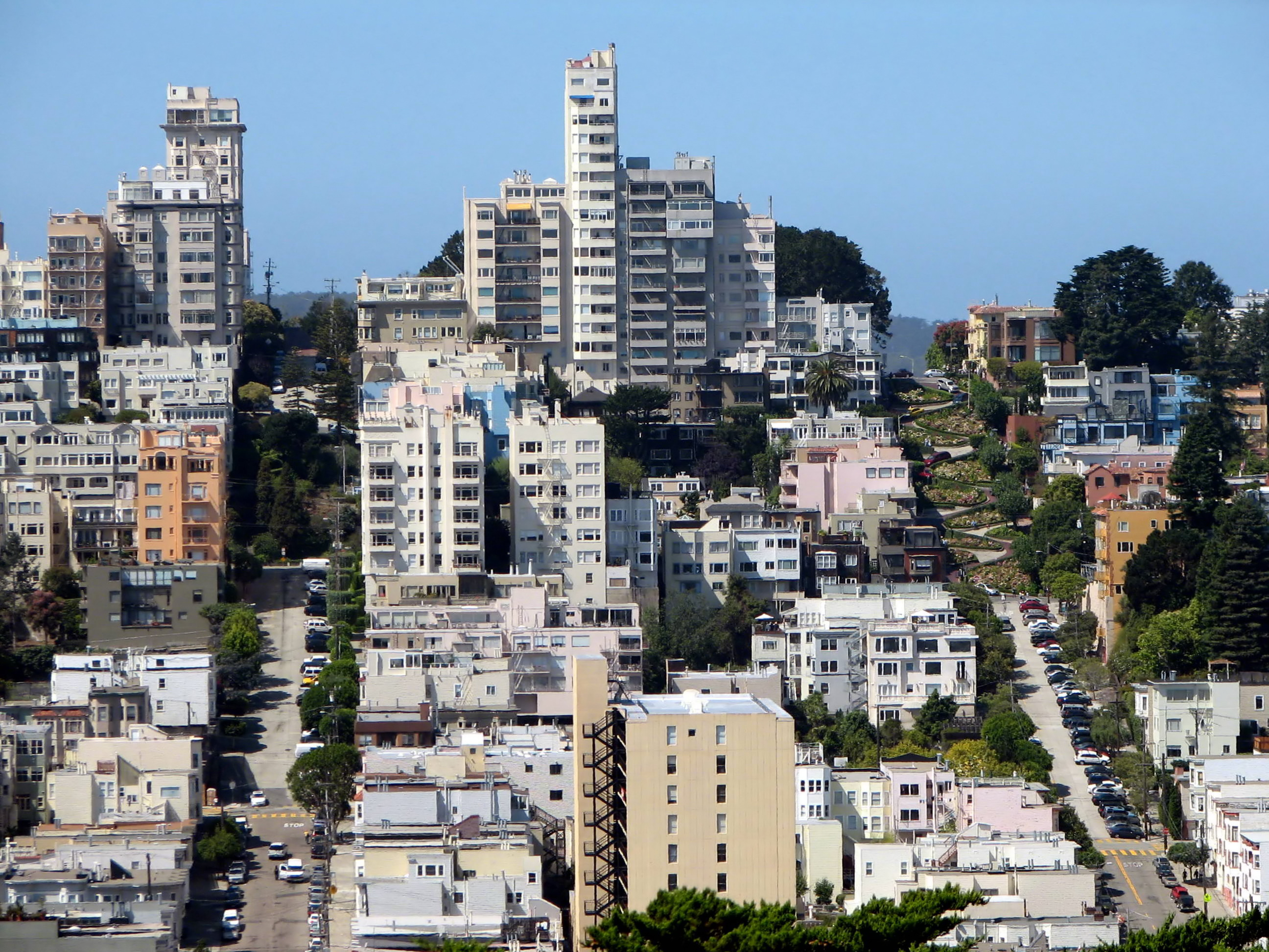 Russian Hill, seen from Telegraph Hill, San Francisco, California, USA